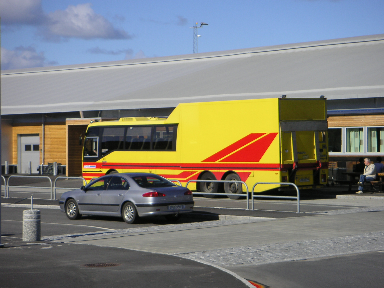 SR 68679, Veolia Transport Nord #433, 1995 Volvo B10M 6x2 / Arna Comet 330. In the yellow and red livery of Finnmark Fylkesrederi og Ruteselskap.